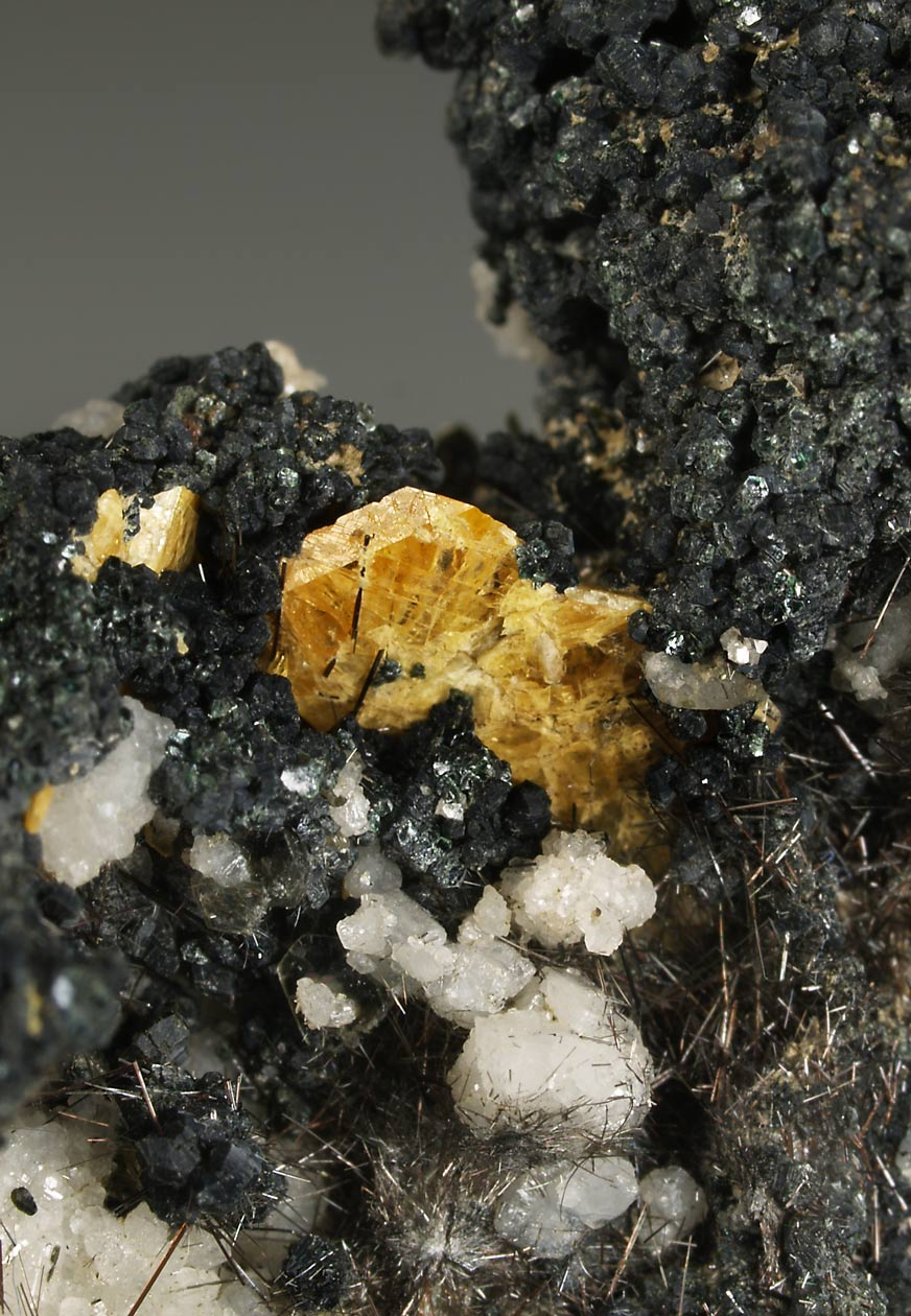 Exceptional specimen of asbecasite. Exceptional for the size of the crystals, their color and abundance. They show some defined faces and some of them are partially covered by chlorite and fine needles schorl-dravite. Not easy to find on the market. From the type locality: Wannigletscher, Scherbadung area (Monte Cervandone), Kriegalptal, Binntal, Valais, Switzerland, Size: 6.5 x 4.8 x 2.6 cm. Main crystal: 5 x 3 mm.